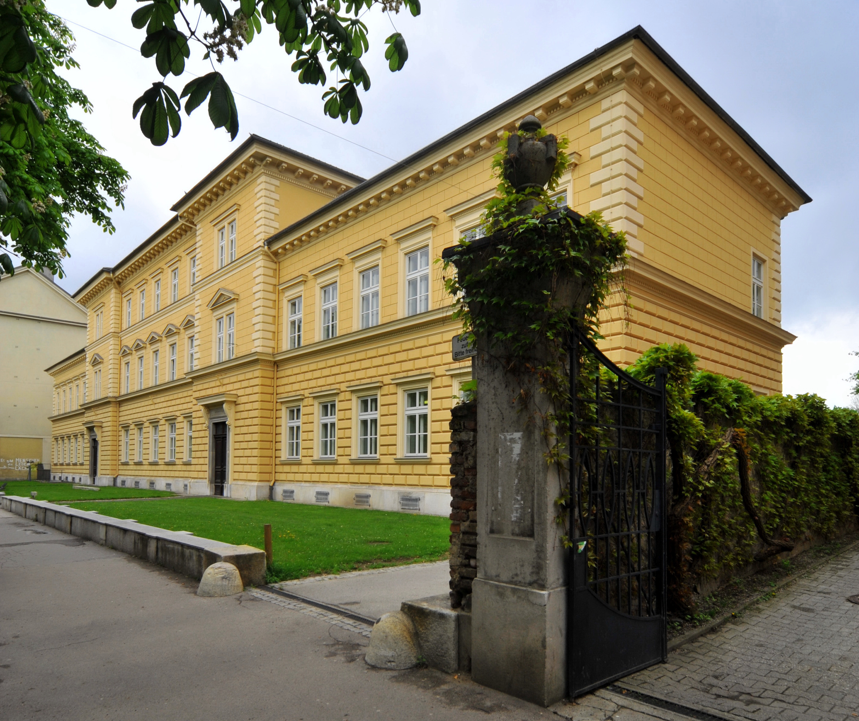 Former teacher training college, Bahnhofstrasse #36, situated in the 7th district "Viktringer Vorstadt" of the Carinthian capital Klagenfurt, Carinthia, Austria